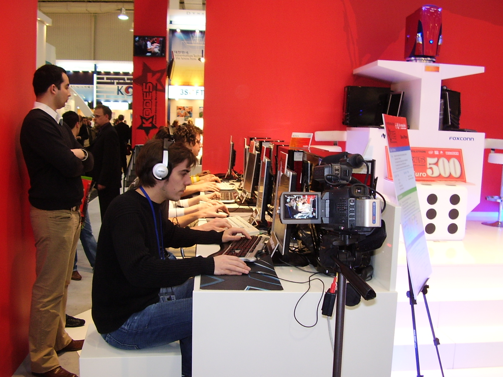 E-Sport-Match (Clanwar) between two Counter-Strike 1.6 clans on the CeBit 2006.